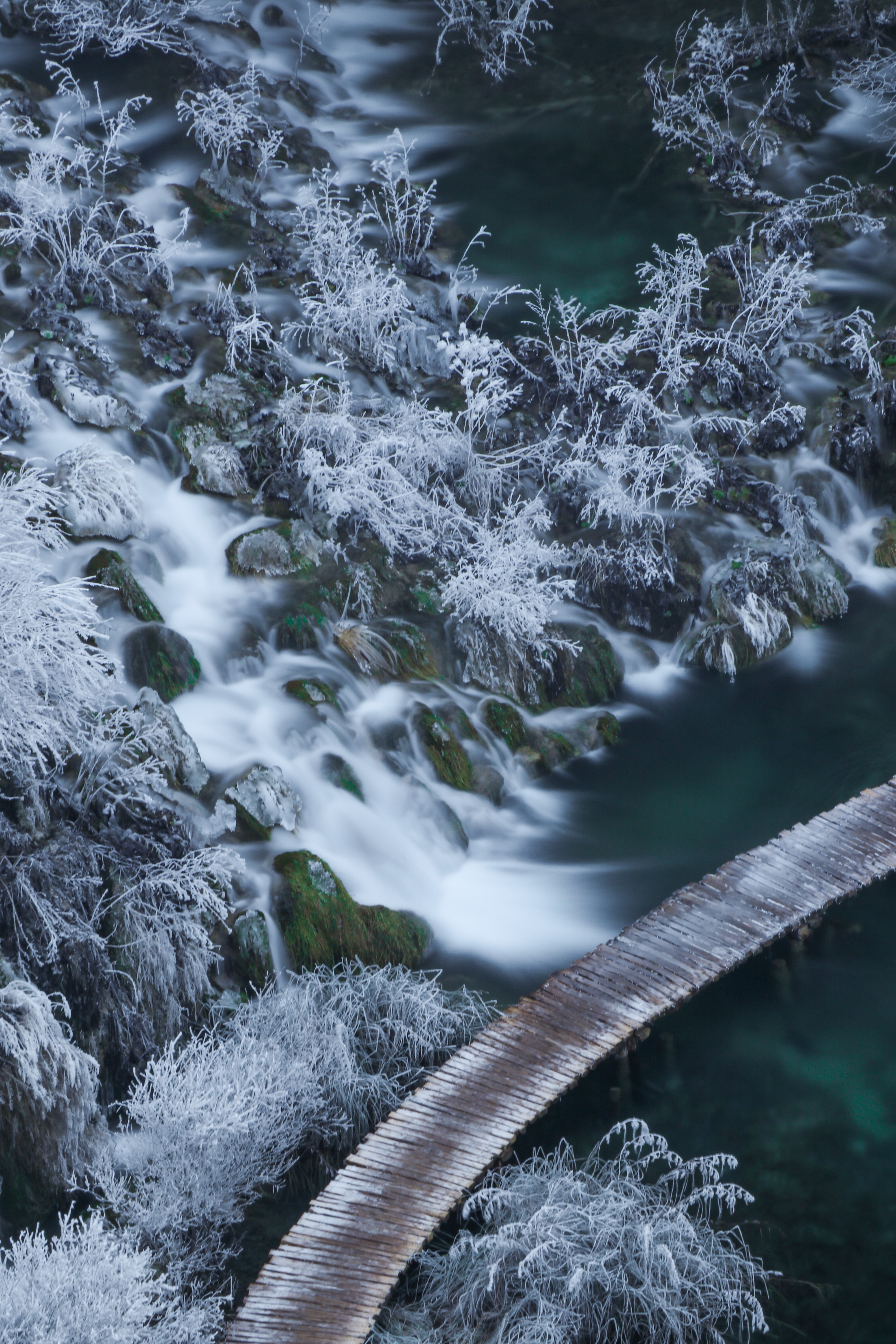 " Winter Wonderland "Plitvice National Park in December 2016 This is a a photo of a natural area in Croatia with ID: NP06